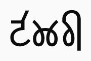 specimen